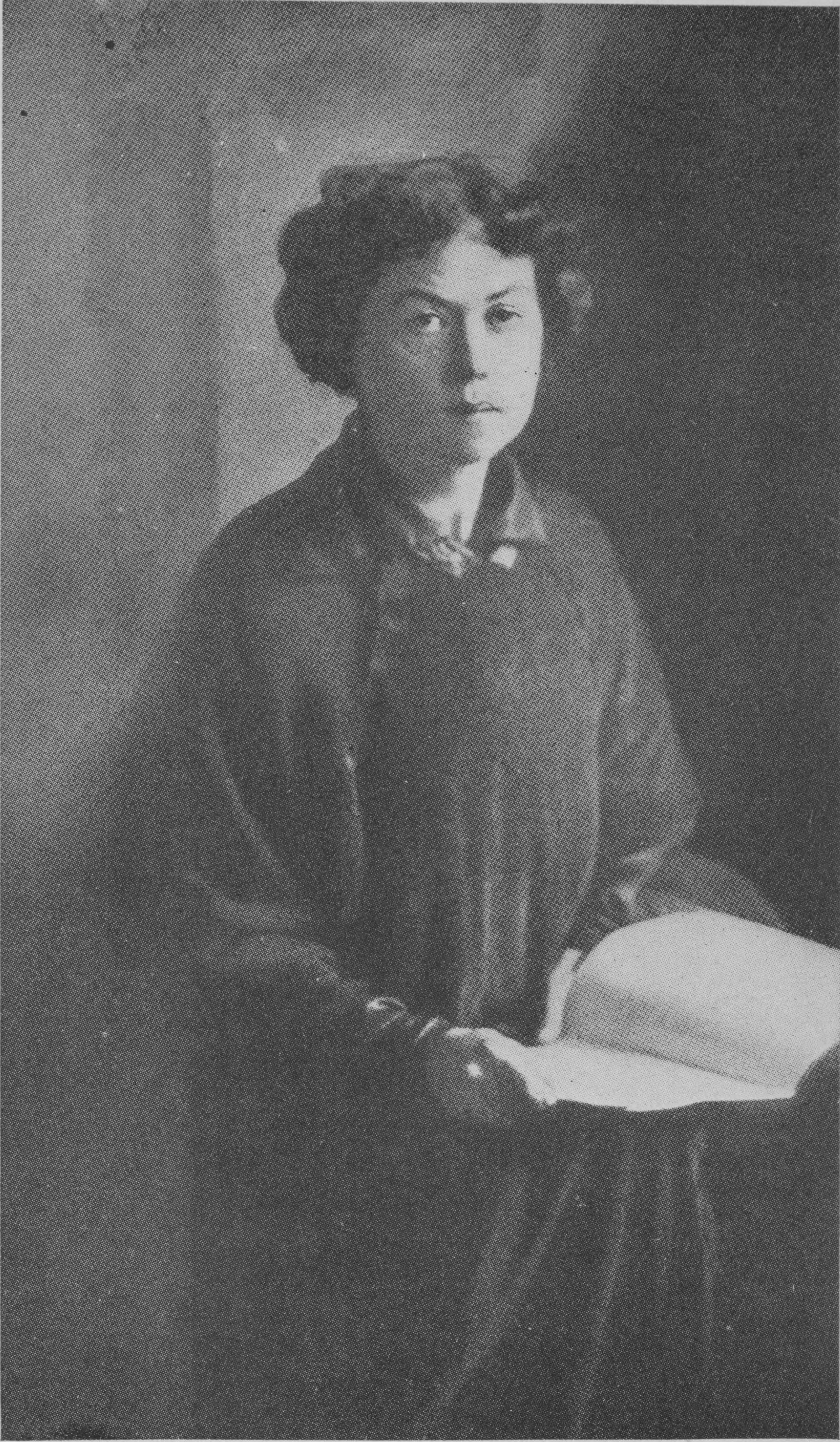 A. Kollontay, People's Commissar of Social Welfare in the bolshevik government, Soviet Russia.